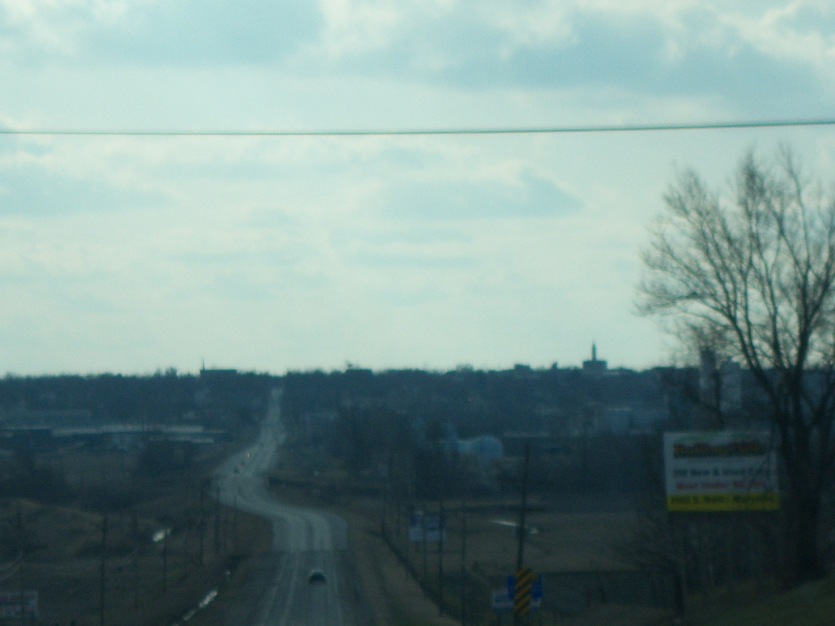 The "skyline" of Maryville, Missouri from US highway 136